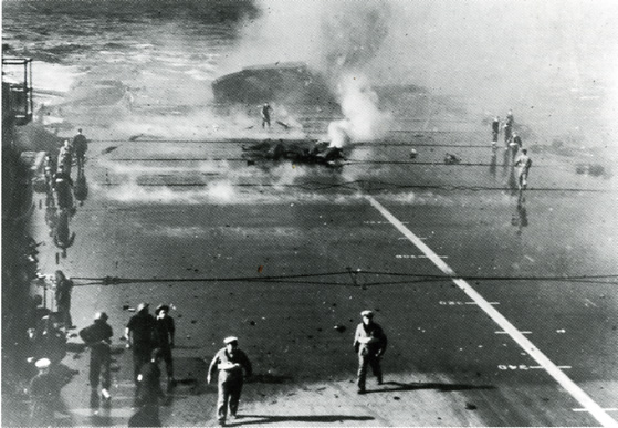 The flight deck of HMS Illustrious after being struck by German bombs, 10 January 1941